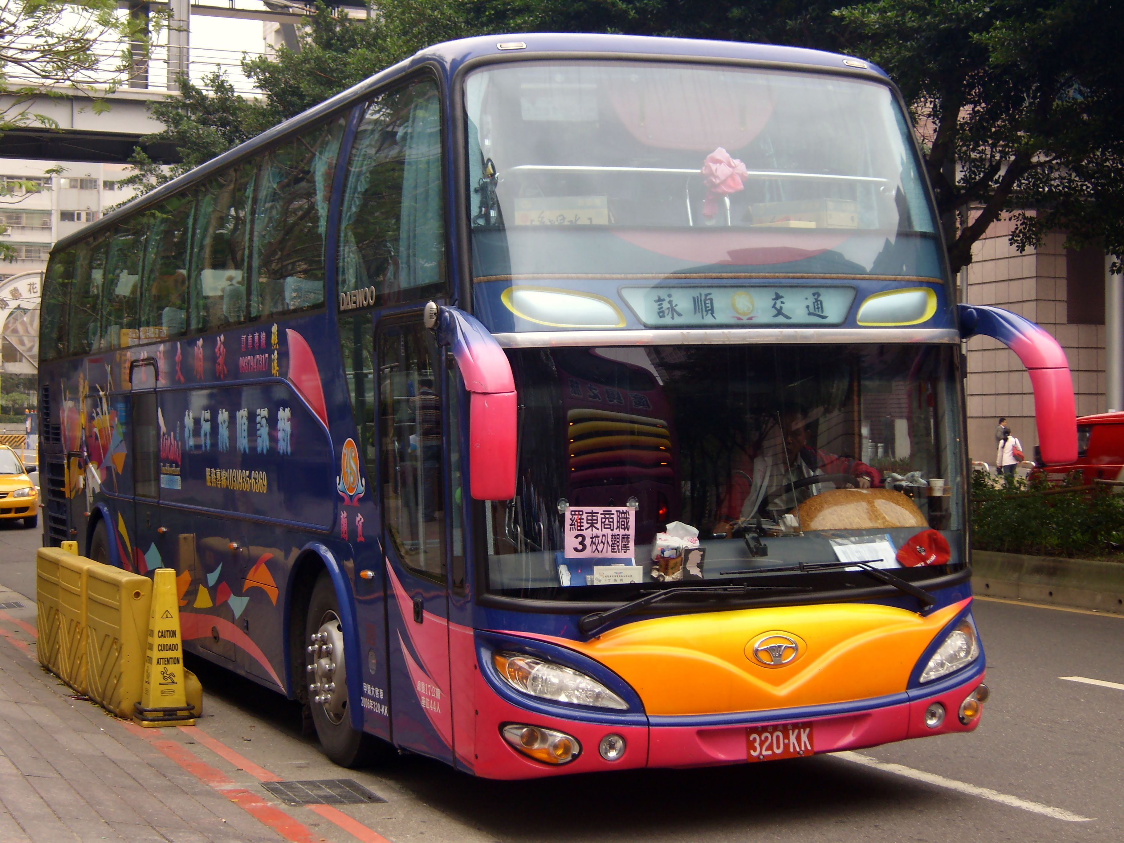 A special Daewoo BH117K.